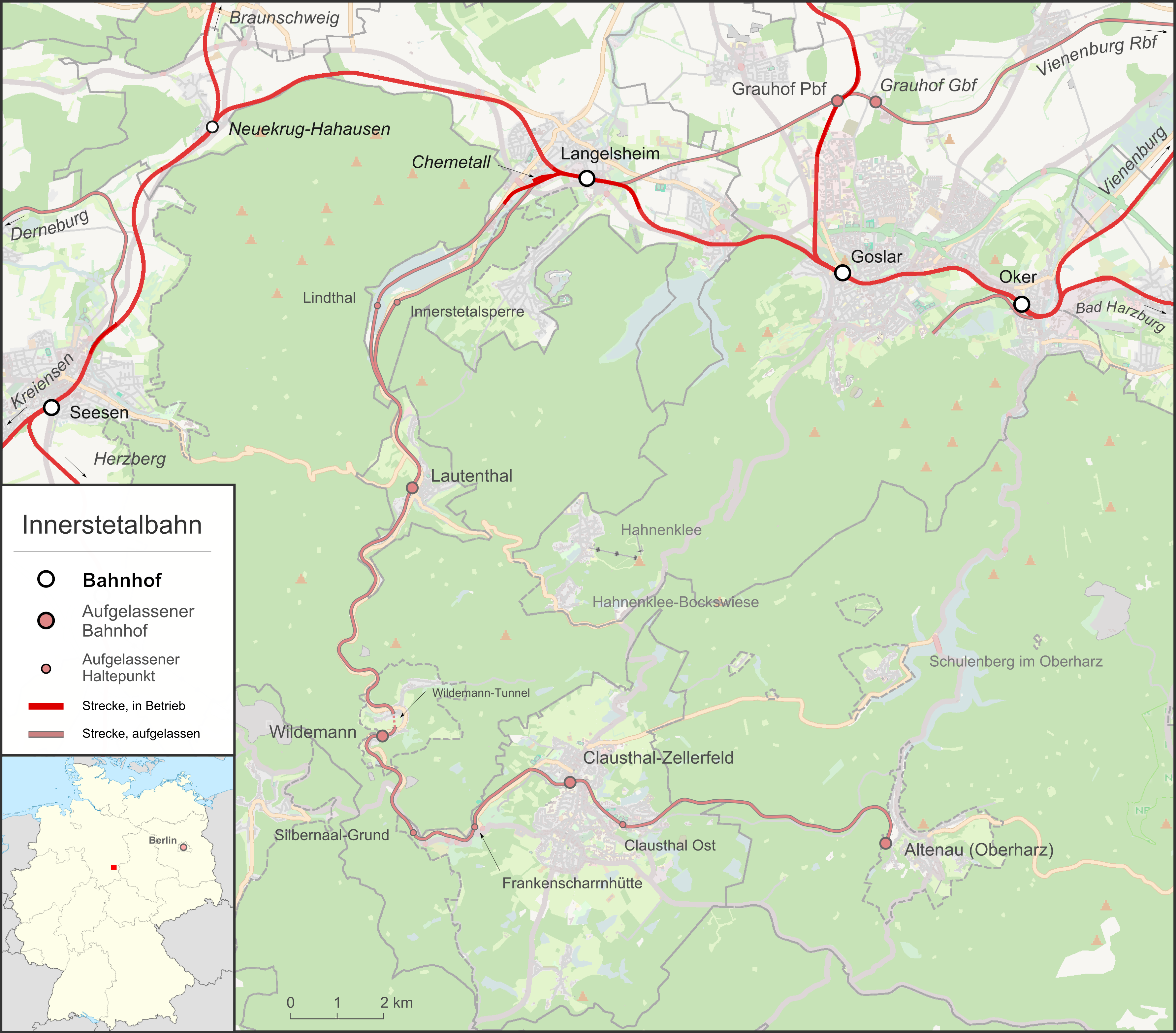 Map of the Innerste Valley Railway in Lower Saxonia, Germany